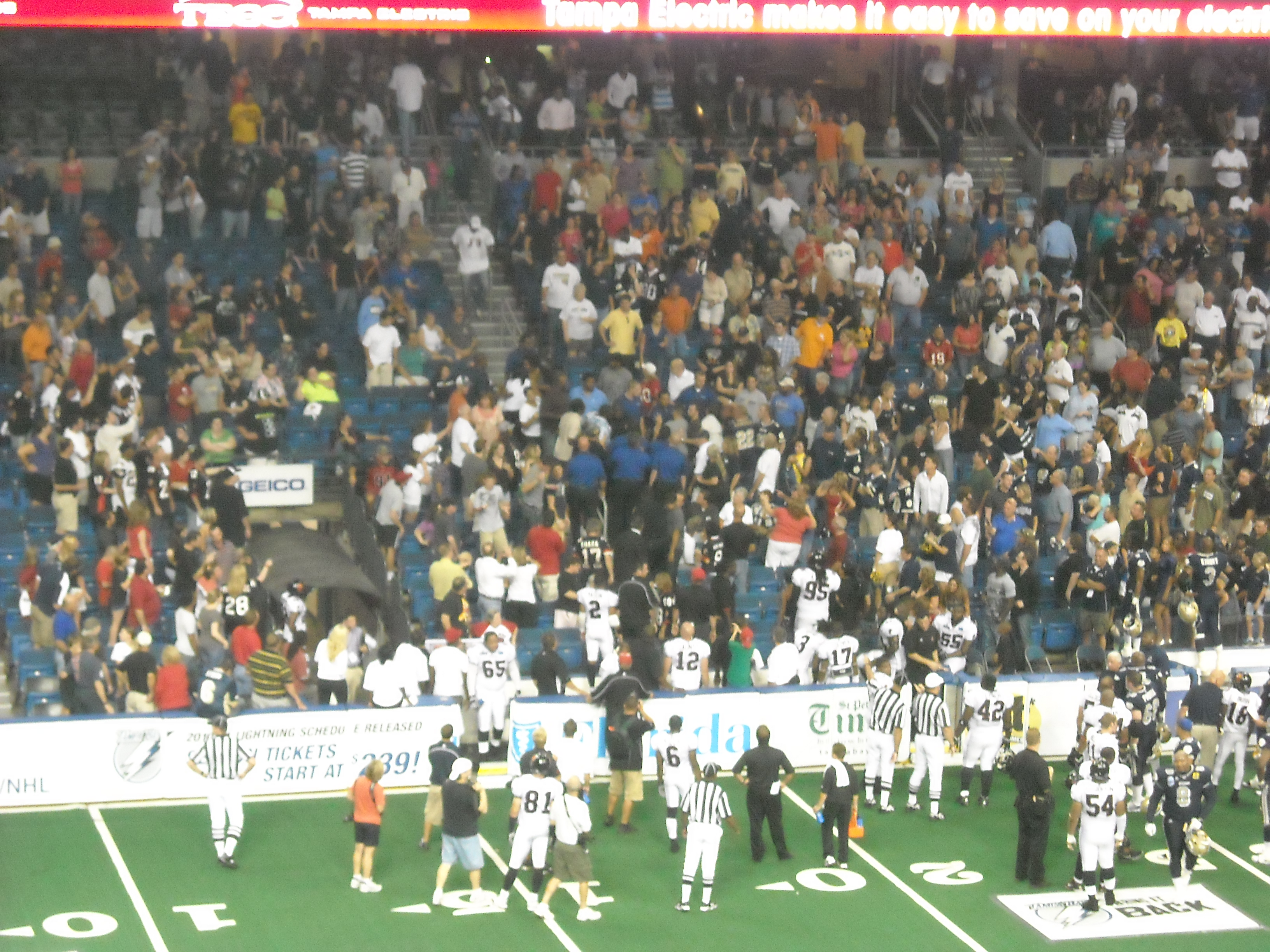 St. Pete Times Forum security in Tampa, Florida tries to sort out the mess made when players of the Orlando Predators arena football team entered the stands. This was after one player's father was involved in an apparent altercation with other fans shortly before halftime during a game against the Tampa Bay Storm. Two players were ejected from the game while ten fans were escorted out.